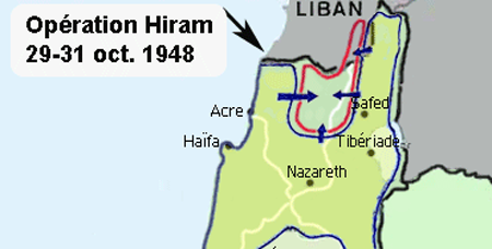 Map of the military situation at the end of october 1948 in the north.